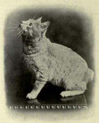 ORANGE MANX OWNED BY MRS. CLINTON LOCKE.